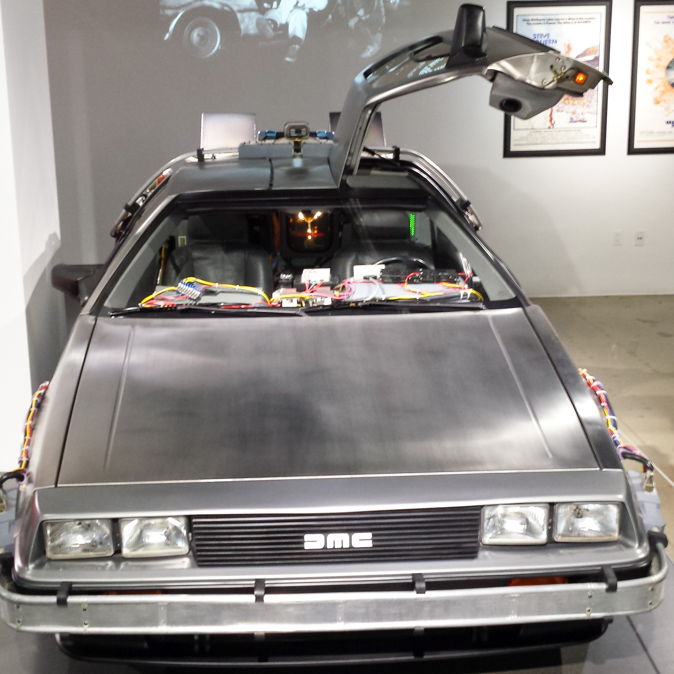 1981 DeLorean DMC-12 from Back to the Future, at Petersen Automotive Museum in Los Angeles, California. (1 of 3 used in the film.)